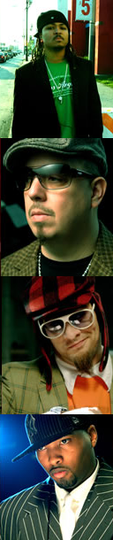 Bucky Jonson Band Lineup